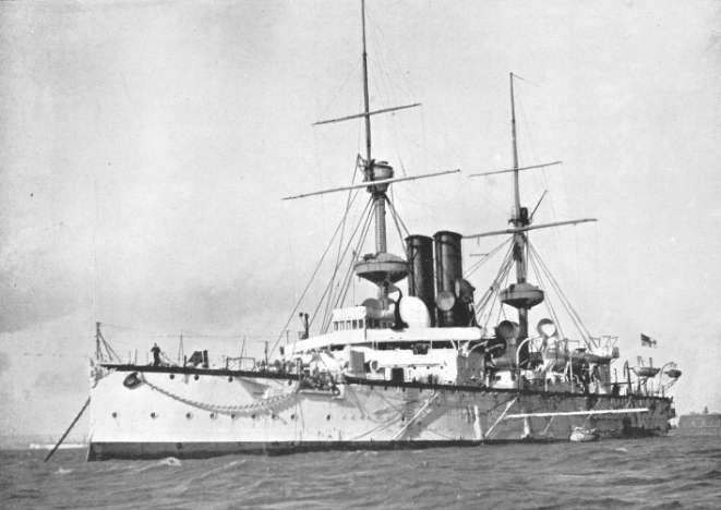 British battleship HMS Centurion of 1892.